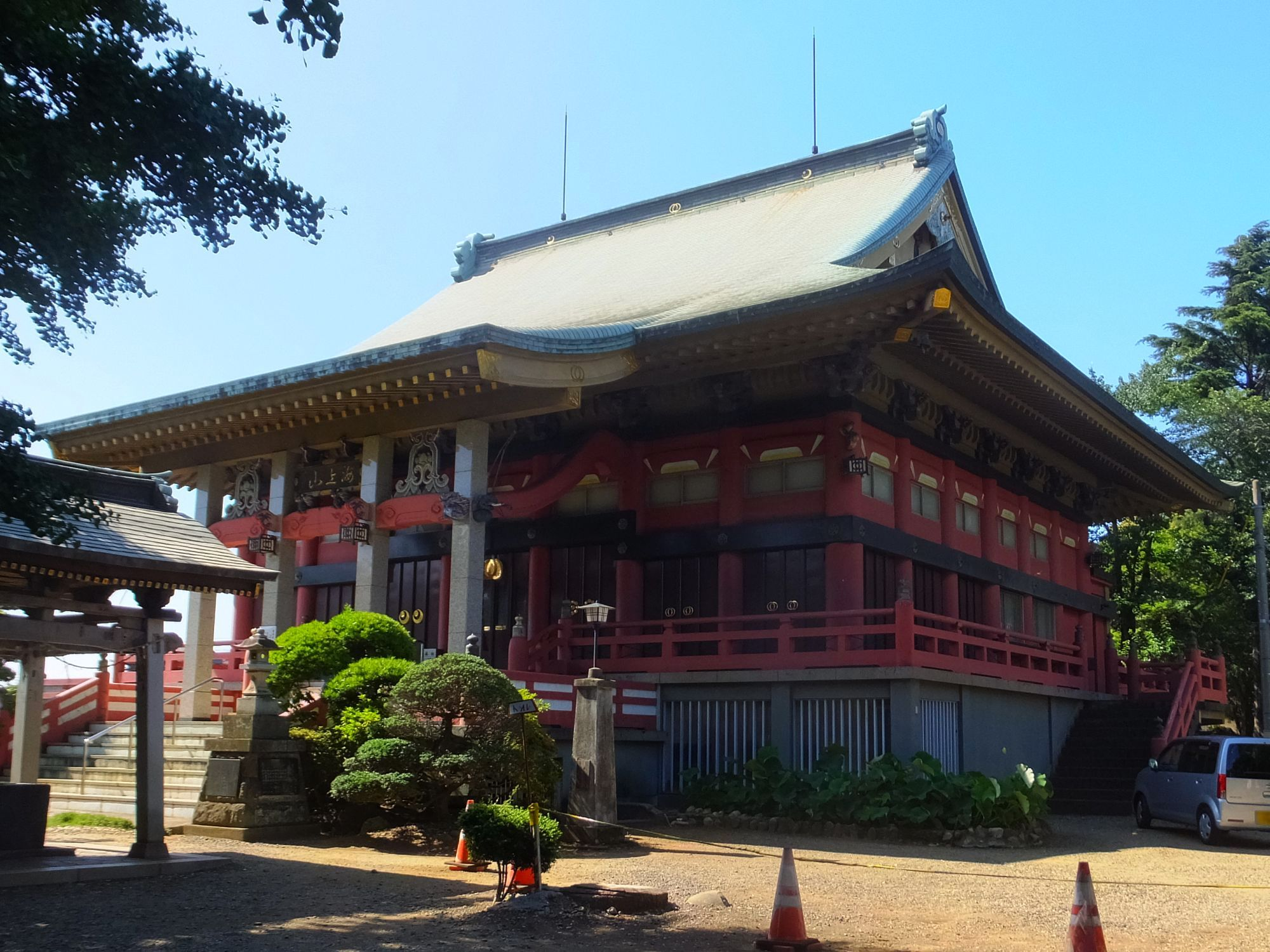 Senyō-ji (Chiba-dera) temple in Chiba, Chiba Prefecture